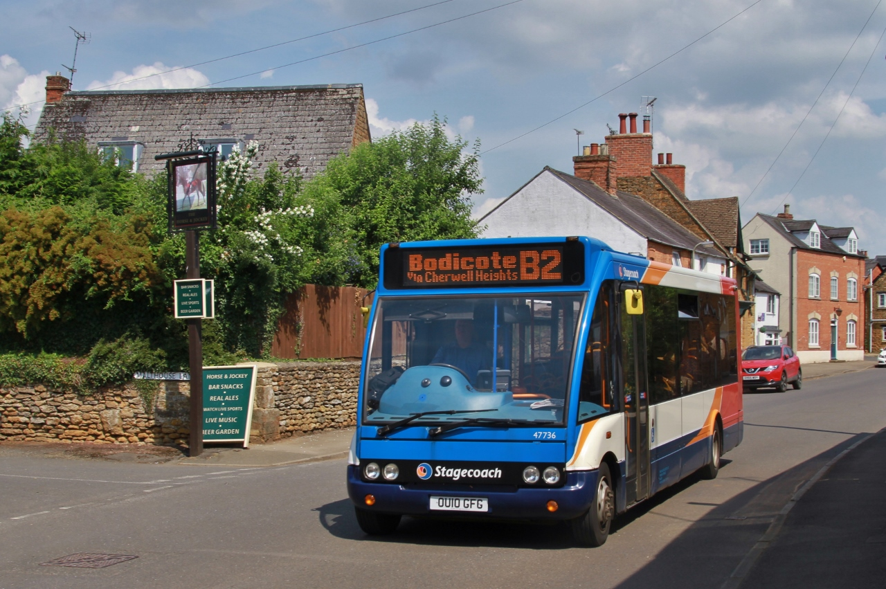 A Stagecoach in Oxfordshire bus on route B2 in High Street, Bodicote, Oxfordshire, passing the junction with Malthouse Lane. It is an Optare Solo, registration mark OU10 GFG, Stagecoach fleet number 47736.